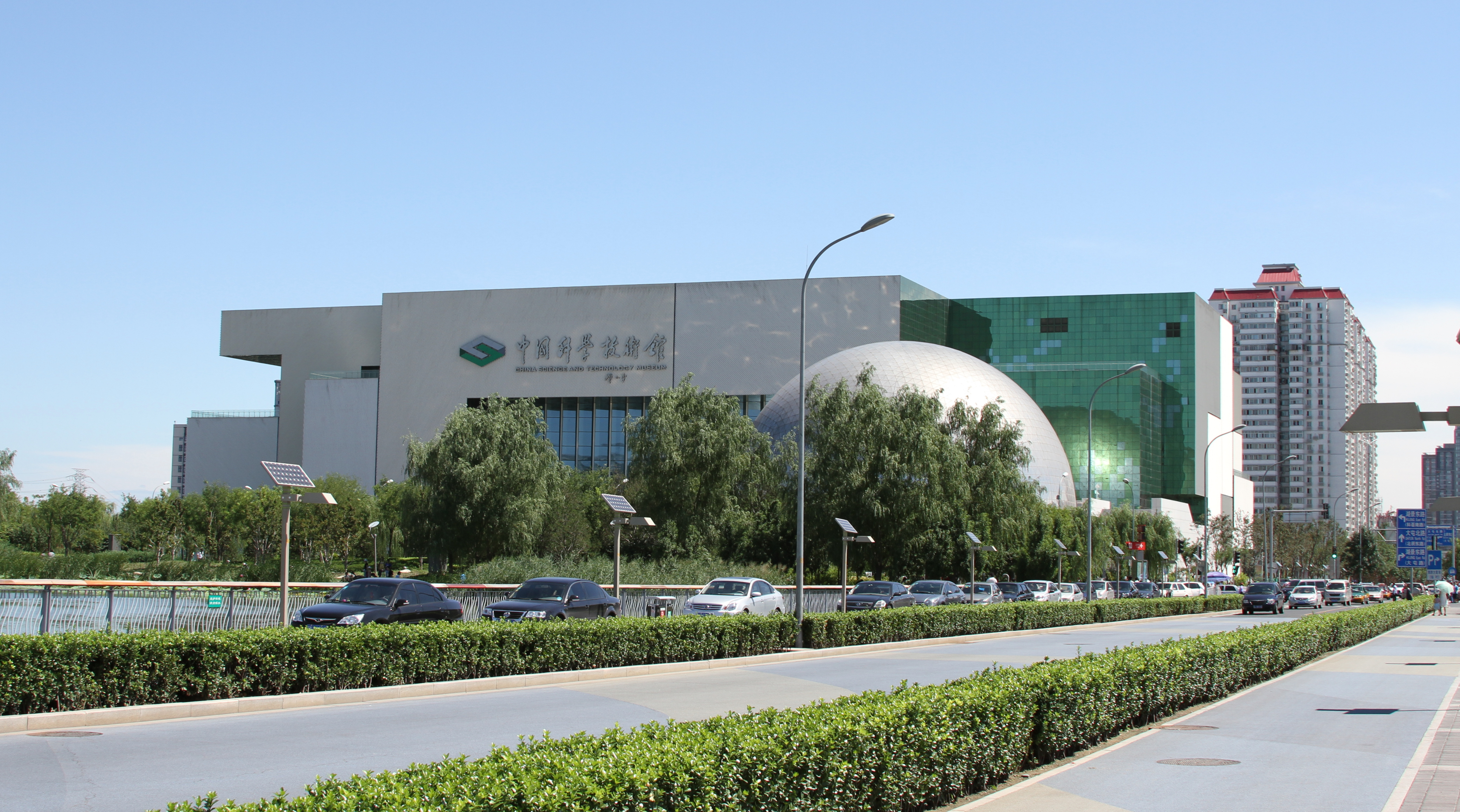 A view of the China Science and Technology Museum on 14-Aug-2010.